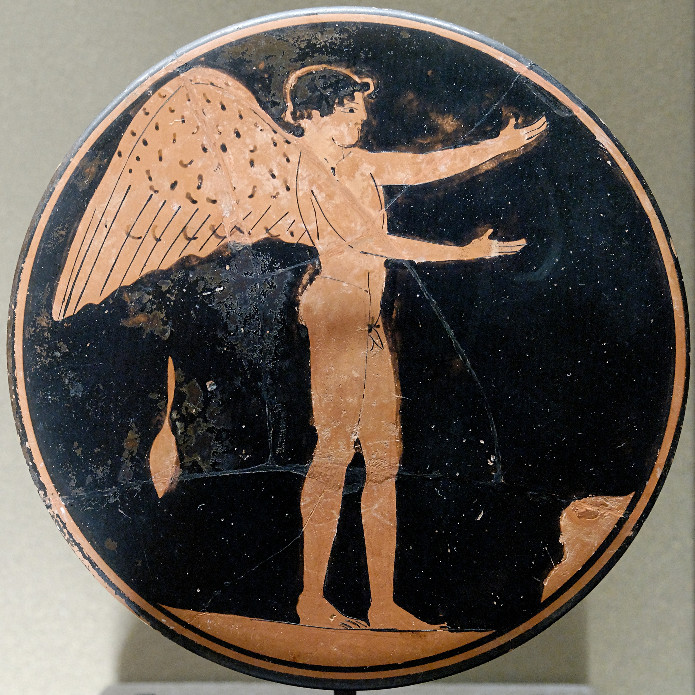 Eros. Attic red-figure bobbin, ca. 470 BC–450 BC.